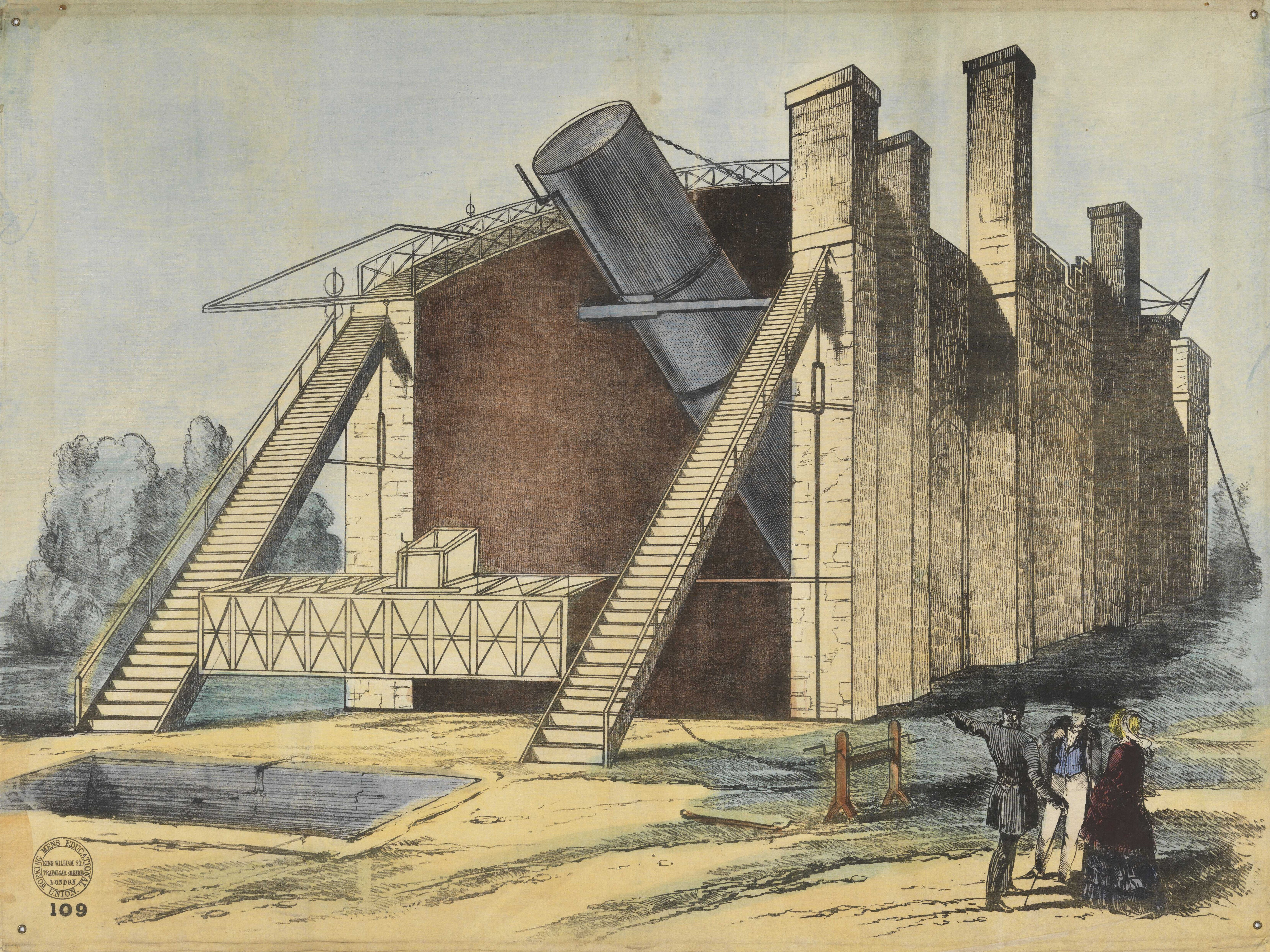 Lord Rosse's Great Reflecting Telescope, at Parsonstown, Ireland Coloured cotton wall hanging, showing the so-called Leviathan of Parsonstown, a large reflecting telescope erected at Birr Castle in Ireland. At each corner is a brass eyelet from which to hang the piece, while the number 109 is printed in the lower left hand corner below a stamp for the Working Men's Educational Union, King William Street, Trafalgar Square, London. This is one of nine wall hangings now in the NMM, all on astronomical themes, which were produced by the Working Men's Educational Union. They were printed lithographically on cotton, probably to avoid paper duty. The hangings would have been used in lectures, held at various locations, to illustrate the latest advances in knowledge. The Working Men's Educational Union was a philanthropic society that aimed to provide education to the working classes. The WMEU's first annual report (1853) lists wall hanging 109 as 'Lord Rosse's Great Reflecting Telescope, at Parsonstown, Ireland. It cost 1s 6d for subscribers and 2s 0d for non-subscribers and was one of a series of hangings depicting telescopes and their optical principles. The National Maritime Museum also has a print of the Birr Castle telescope (PAJ3506). ‘Leviathan of Parsonstown’